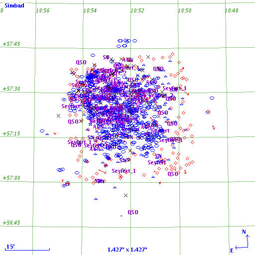 Sky plot of the Lockman Hole centered on the accepted location for this portion of the Hole. Credit: Aladin at SIMBAD.